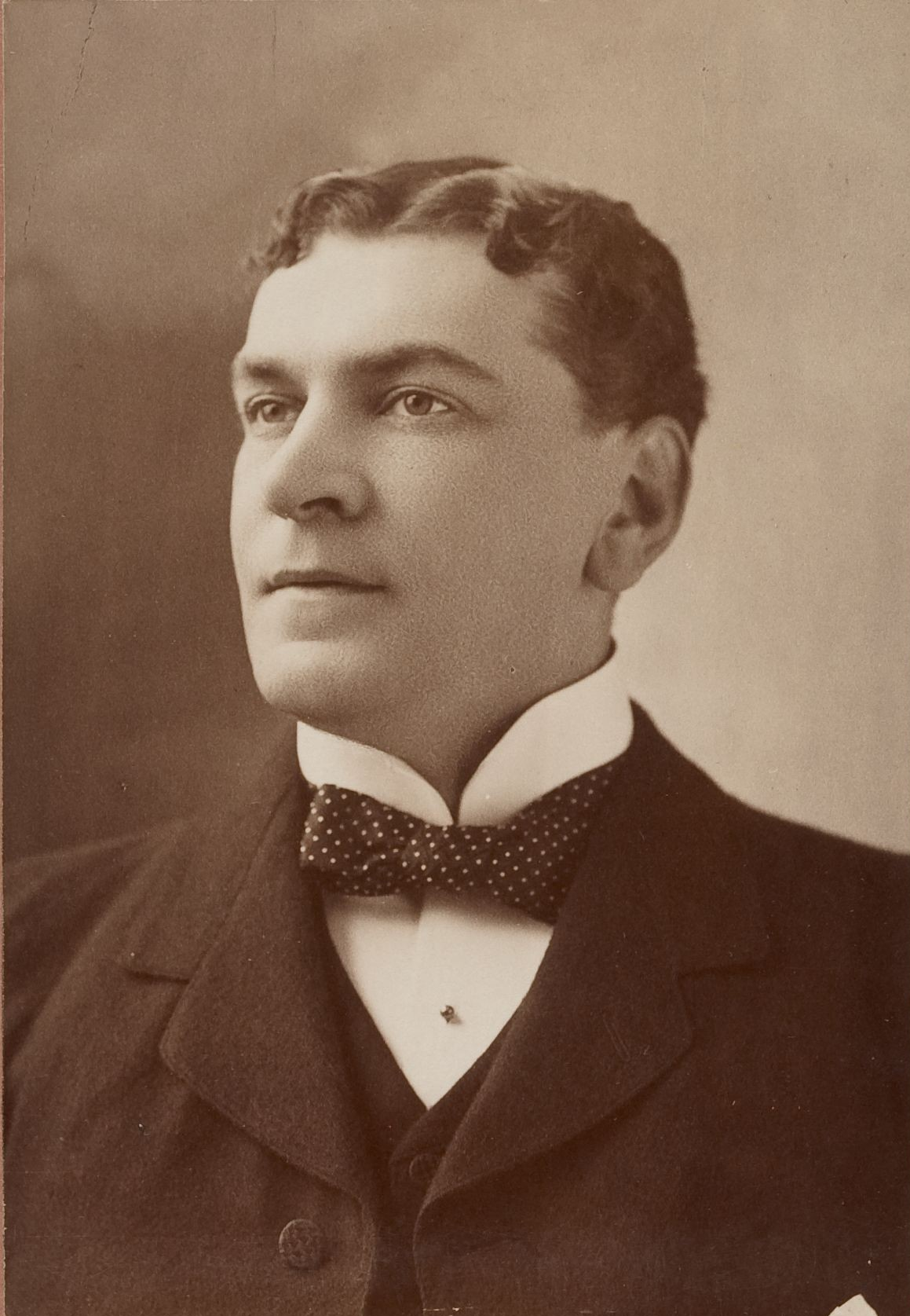 Cabinet card image of English actor and theatre manager Arthur Bourchier (1863-1927). Dated 1896 by source. TCS 1.3330, Harvard Theatre Collection, Harvard University